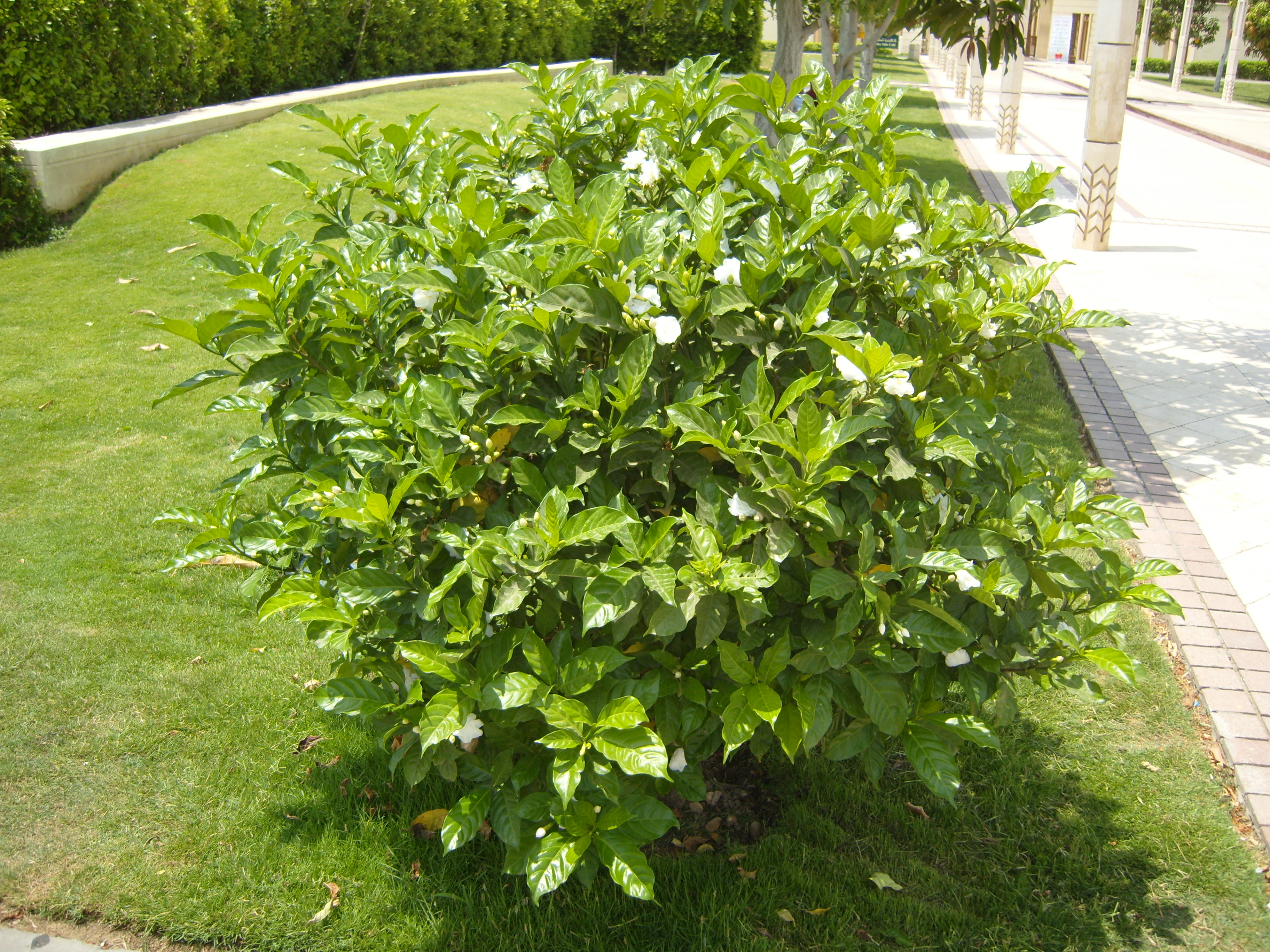 Crape jasmine (Tabernaemontana coronaria)